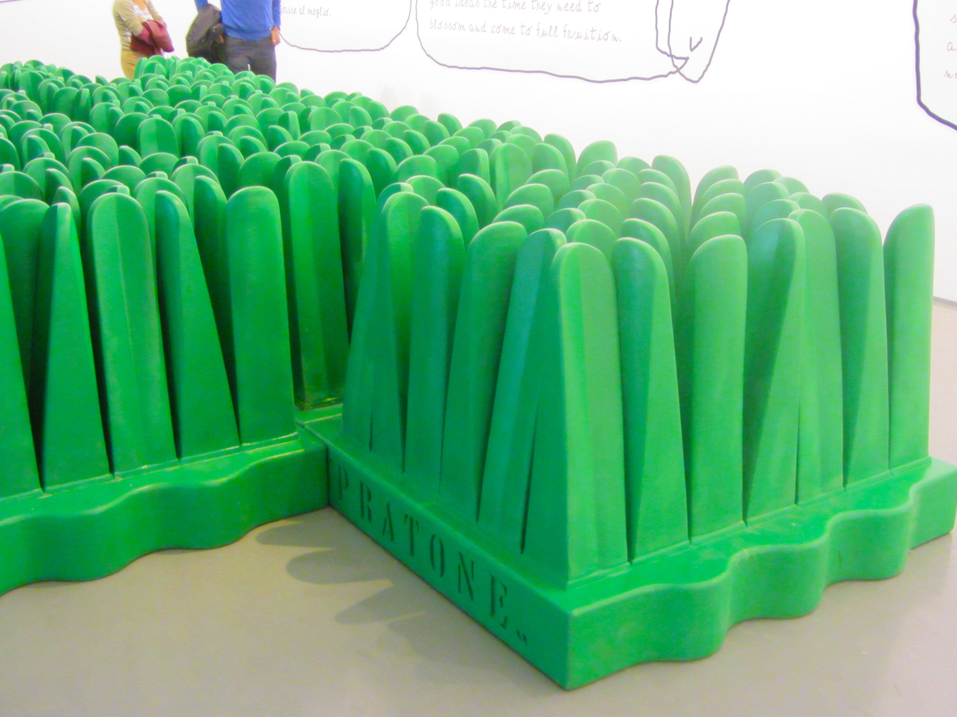 Ten Pratone seats in the exhibition "Le fabbriche dei sogni" - 4th edition of Triennale Design Museum, Milano, Italy. On display the latest version of the Pratone seat by Giorgio Ceretti, Pietro Derossi and Riccardo Rosso, members of Gruppo Strum. The early version of Pratone is dated 1966, but was difficult to produce because the grass leaves were wider at the top than at the bottom and rotated only by 45 degree from one to the other. Since 1971 Gufram produced a refurbished design in an industrial foam production process. During the years, the Pratone seat was refurbished at least one more time. Pratone seats were on display in several exhibitions.